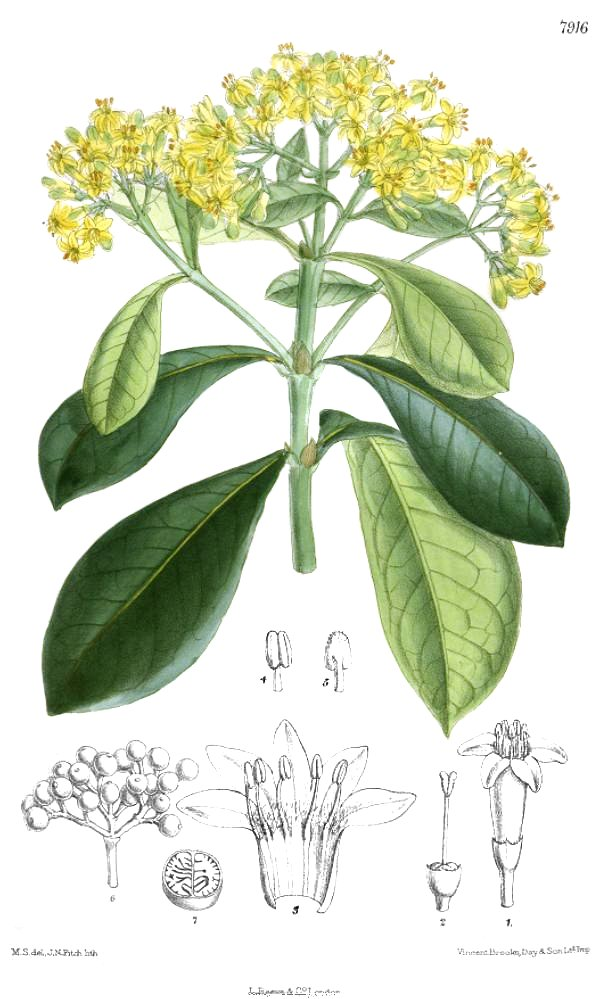 Illustration of Psychotria capensis